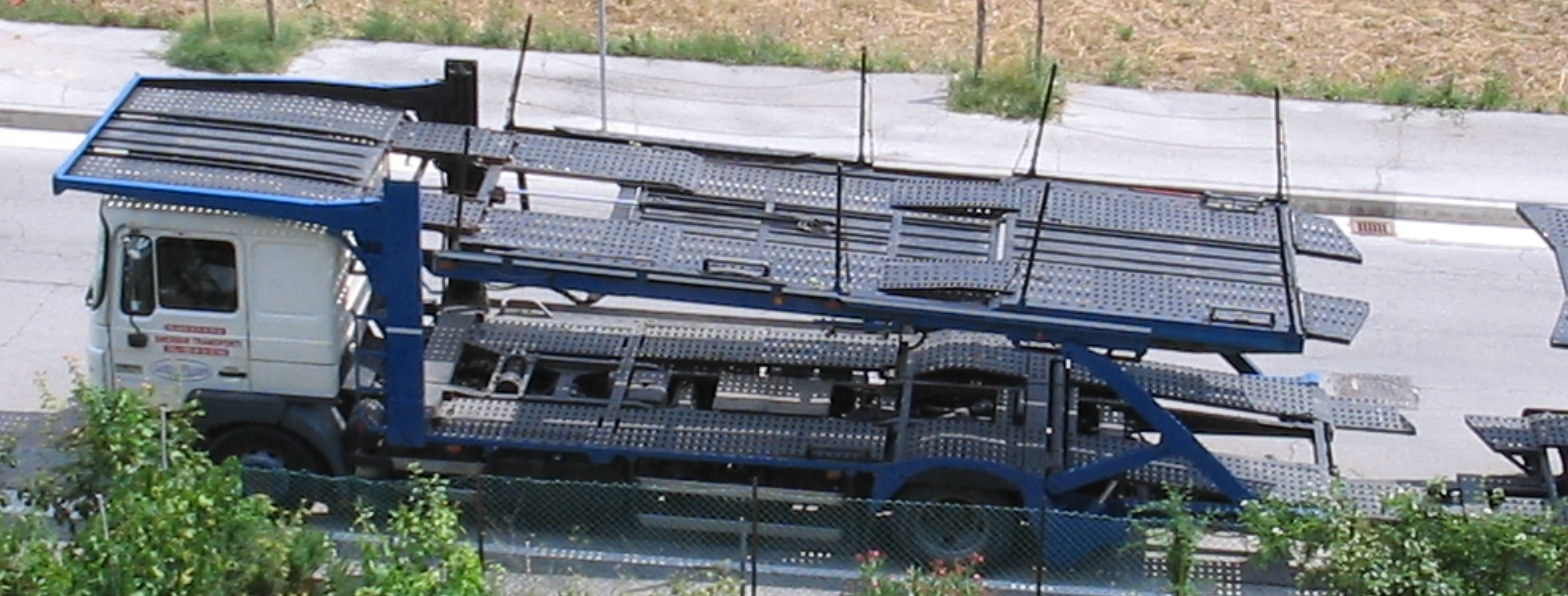 truck, seen from above